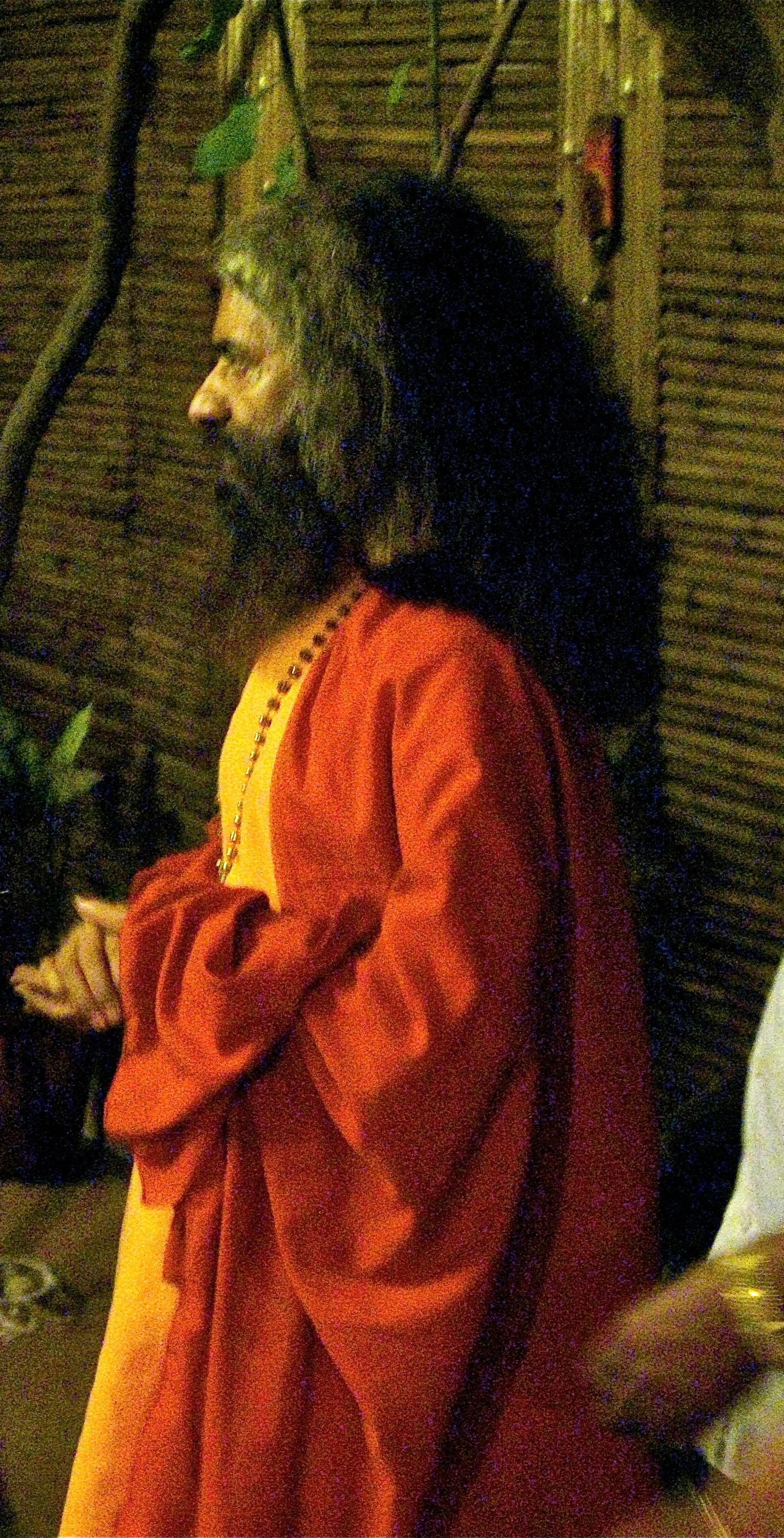 Swami Chidanand Saraswati, head of Parmarth Niketan, Muni Ki Reti, Rishikesh.